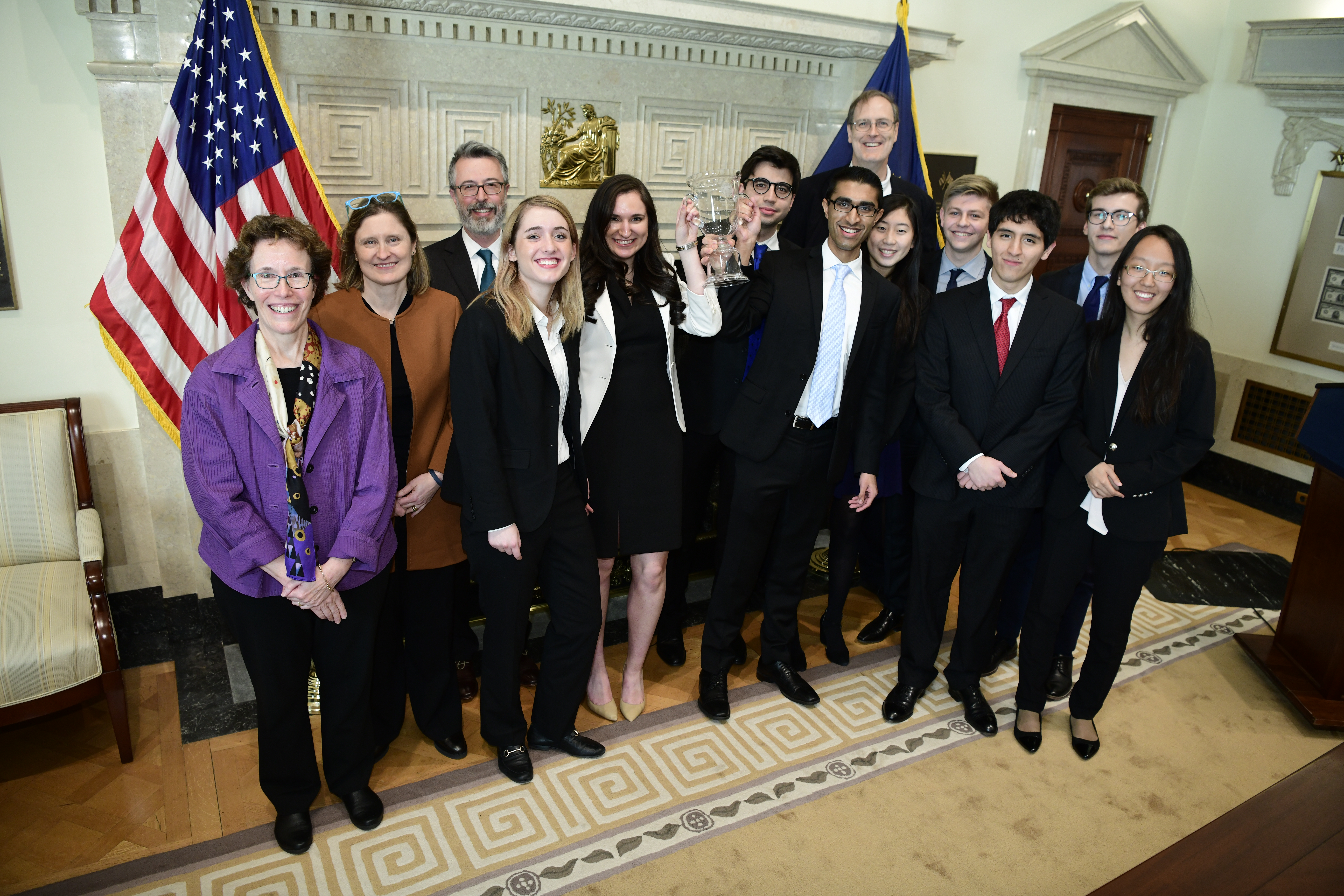 Winners of the 15th annual national College Fed Challenge - Yale University.